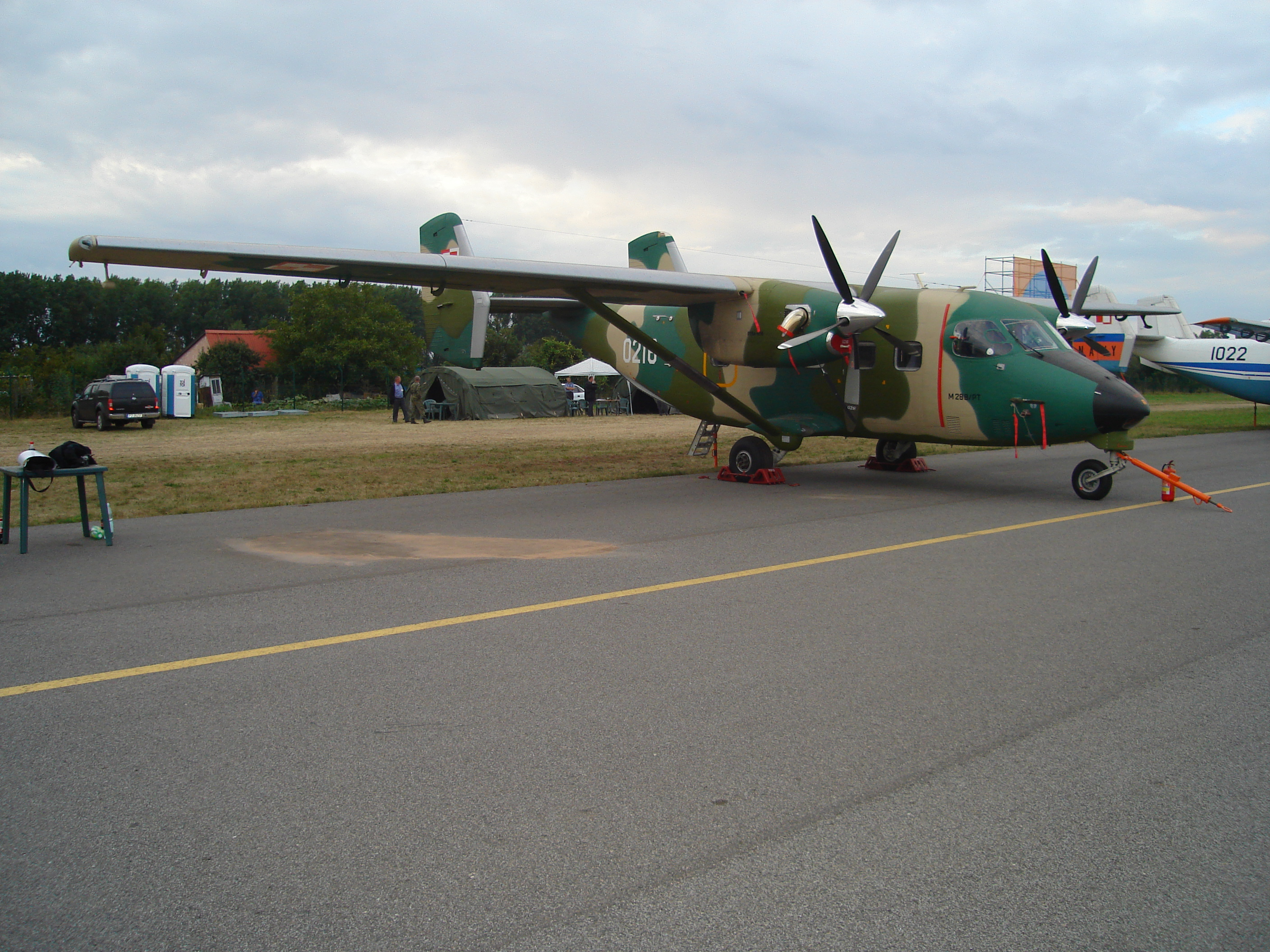 Picture of PZL M28B Bryza, Radom Air Show 2007